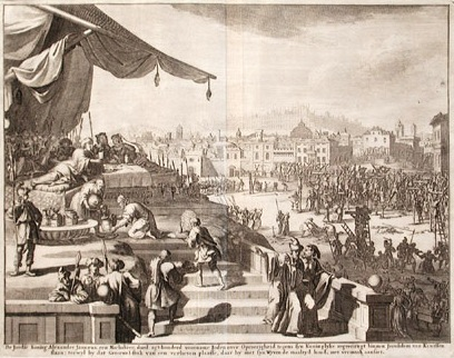 The excution of the Pharisees by Alexander Jannaeus, by Willem Swidde, 17th century.